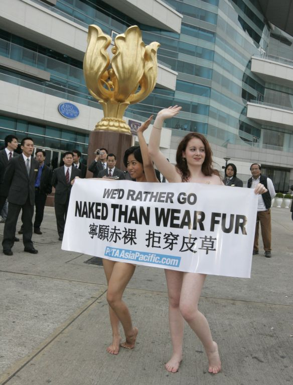 PETA AsiaPacific demonstrates at Hong Kong fashion week